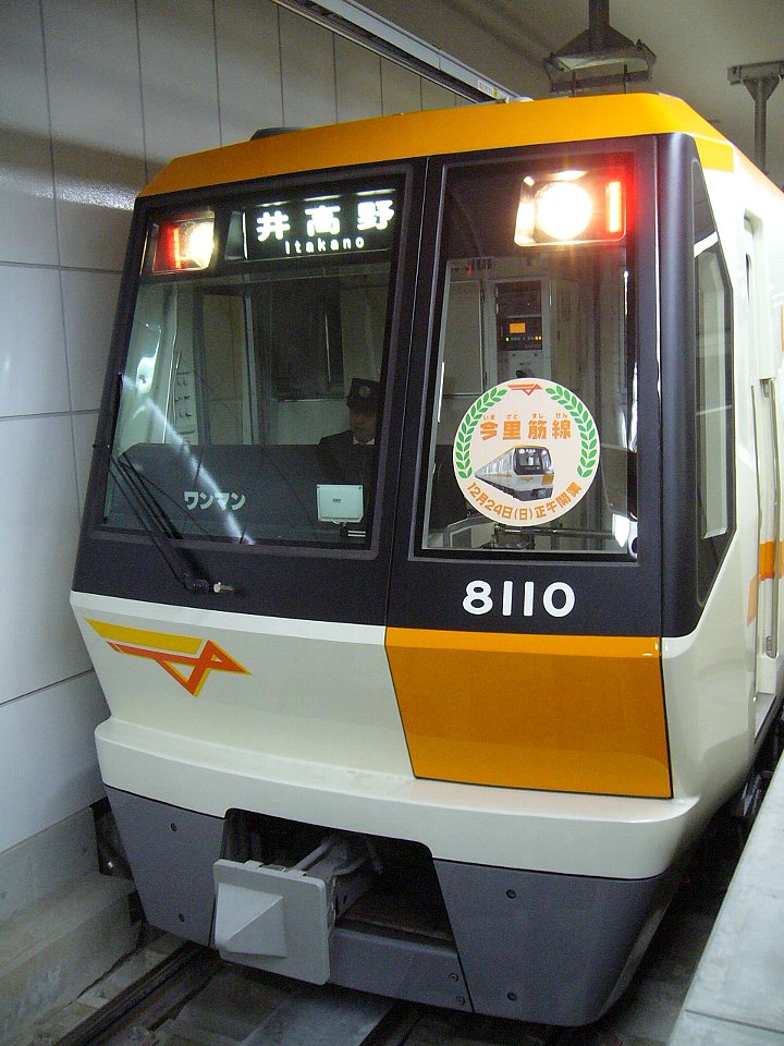 Osaka subway series 80 for Imazatosuji Line